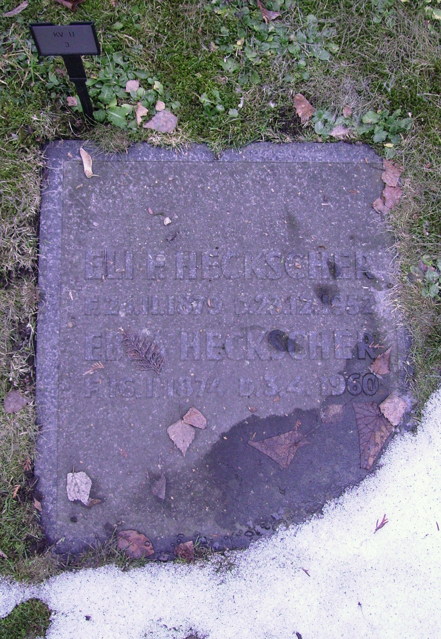 Picture of Eli Heckscher's grave at Judiska norra begravningsplatsen in Solna